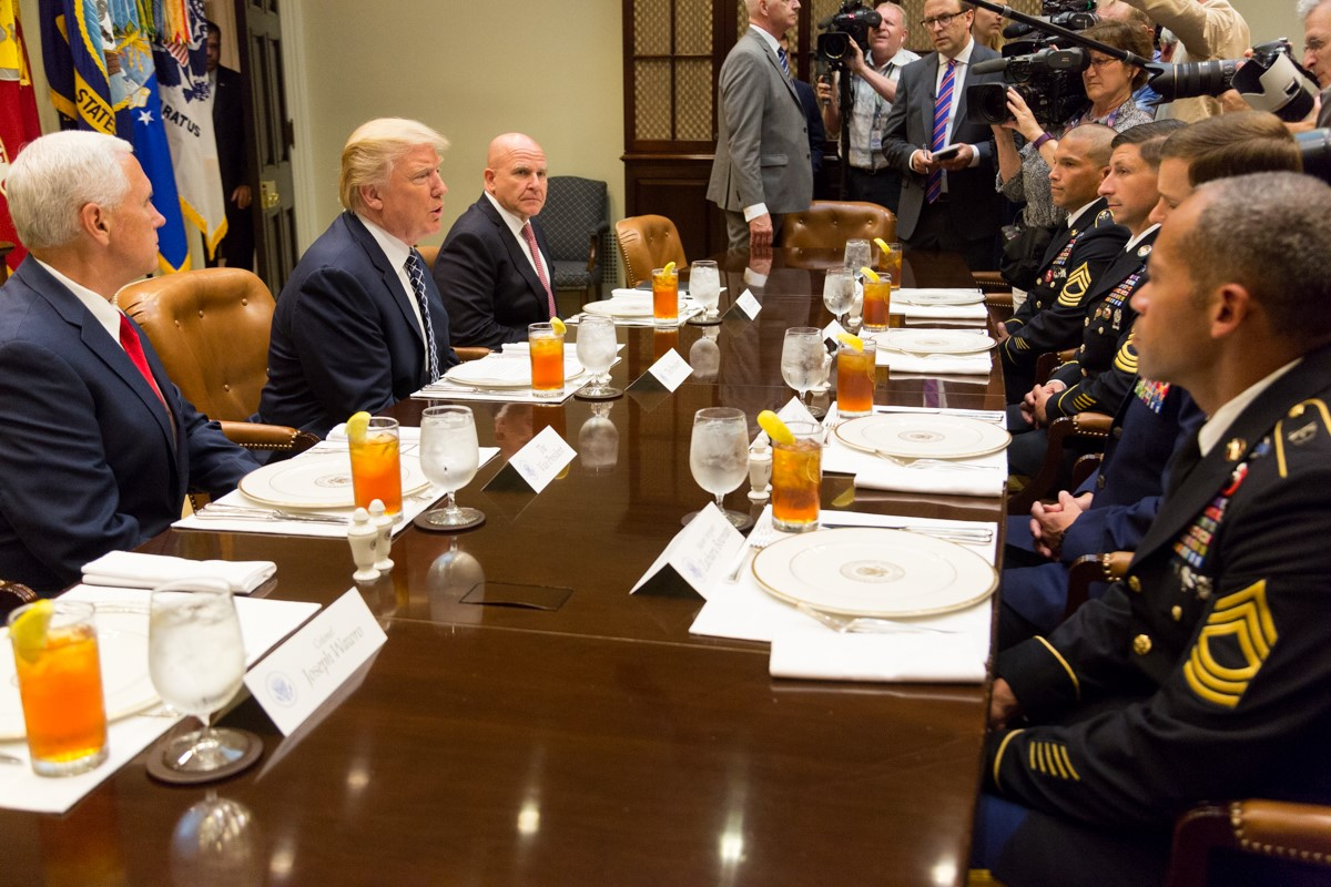 President Trump, Vice President Pence, and National Security Adviser Lt. Gen. H.R. McMaster have lunch with Service Members / July 18, 2017 (Official White House Photo by Shealah Craighead)